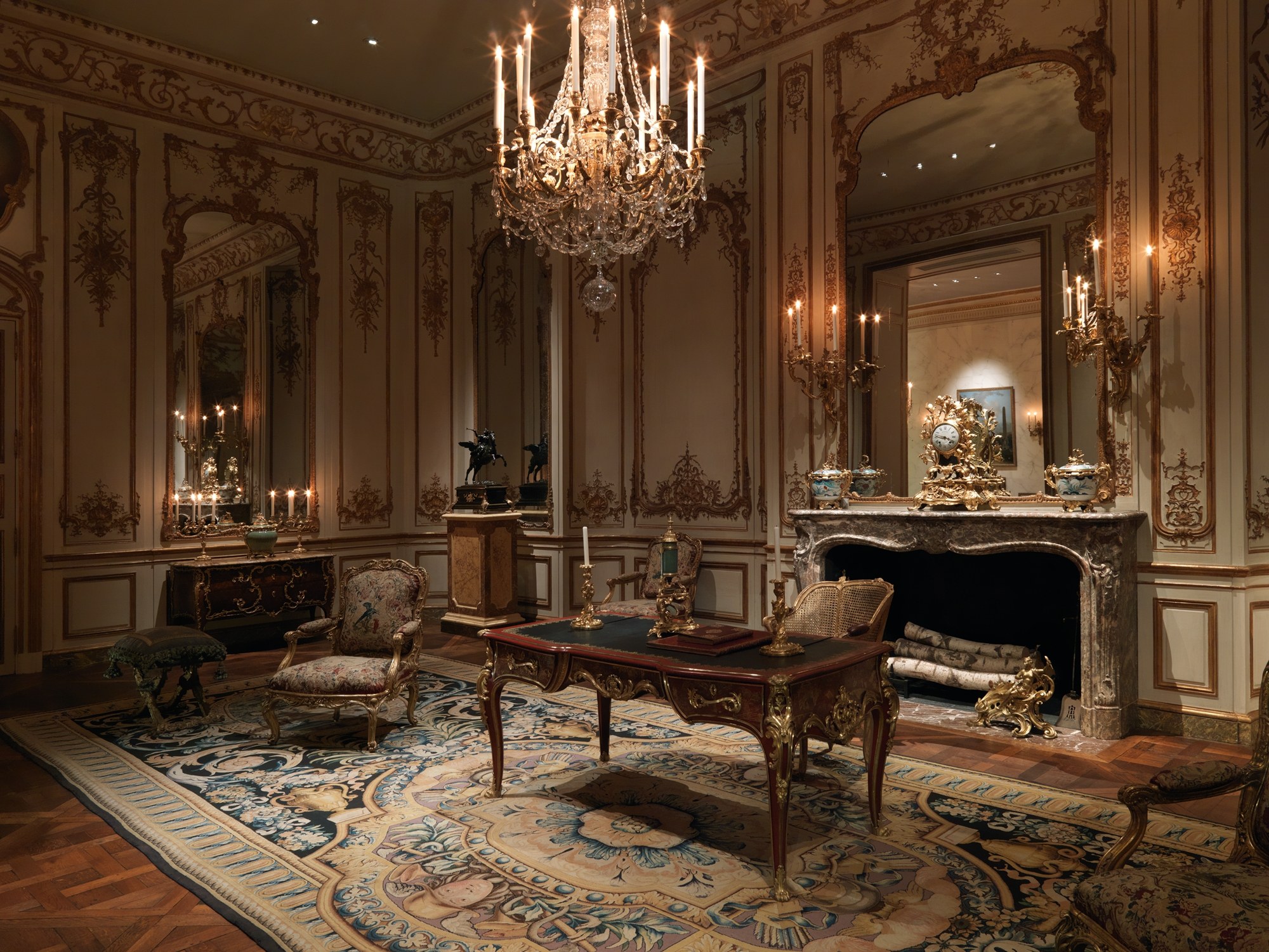 French, Paris; Period room; Woodwork